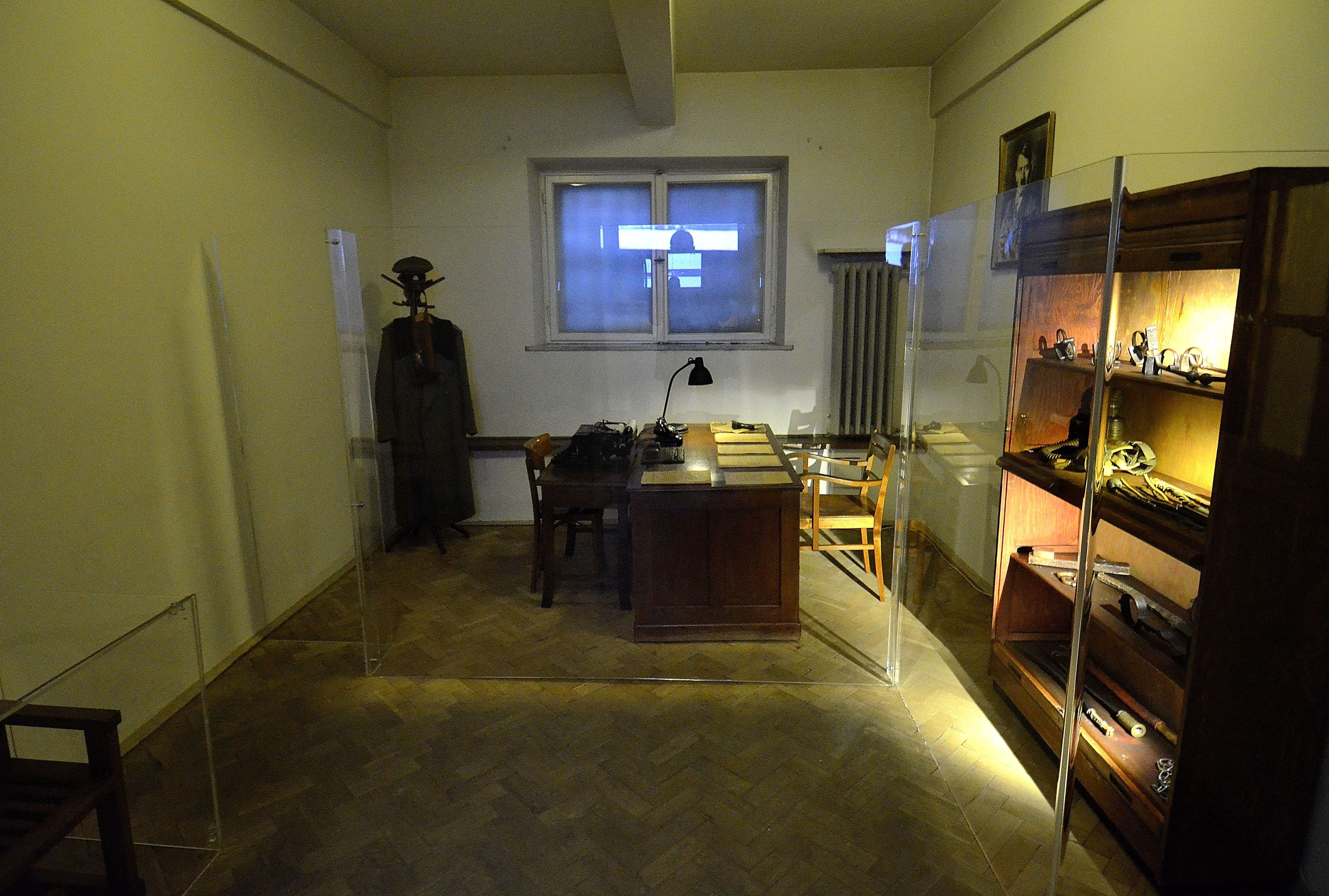 Gestapo duty officer's office in the Mausoleum of Struggle and Martyrdom in Warsaw